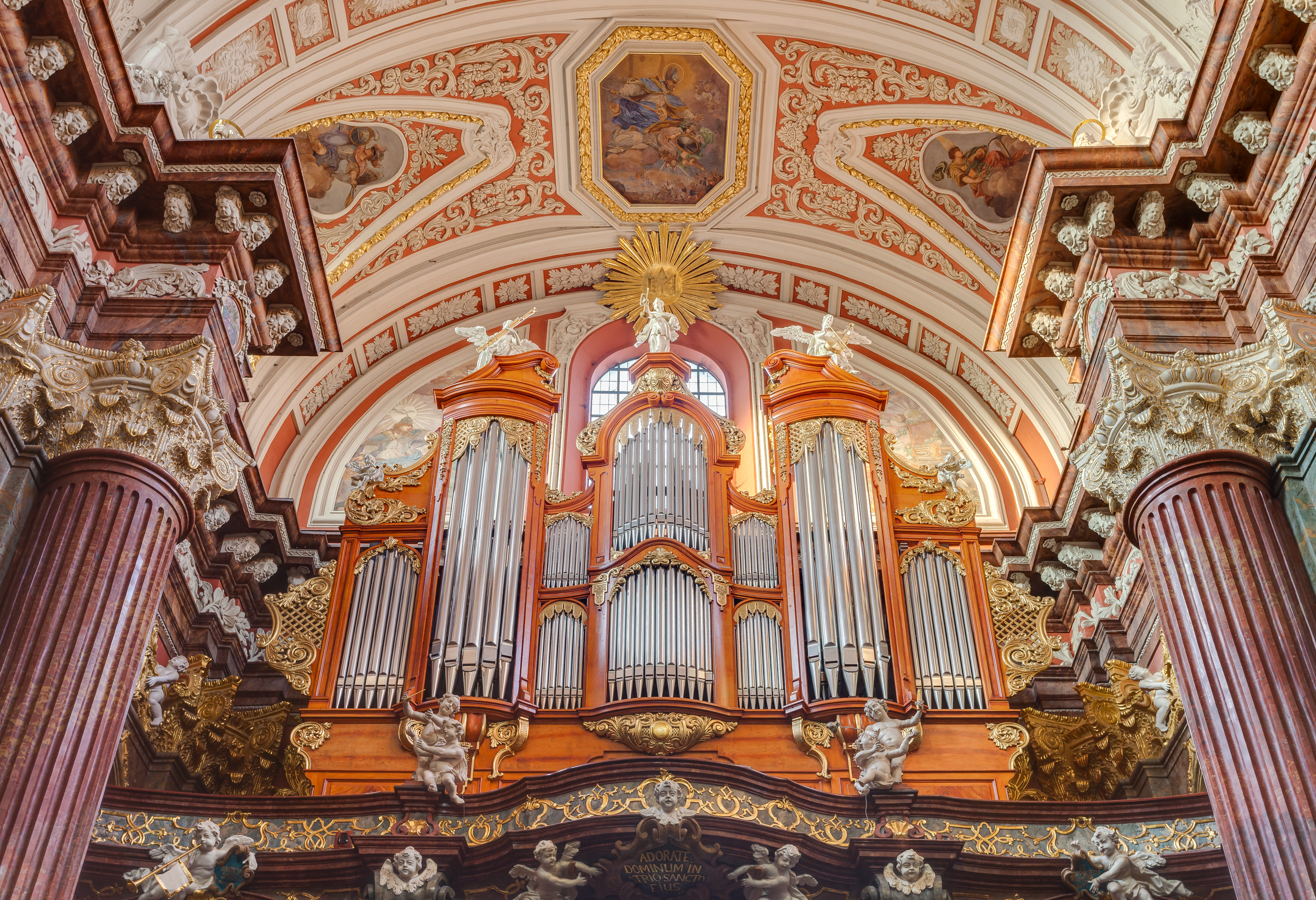 Pipe organ of the Poznań Collegiate Church, Poland. The organ was made by the famous German organ builder Friedrich Ladegast between 1872 and 1876. The piece has 2579 pipes, most of which are made of high value tin alloy and valuable species of trees like: spruce, birch and Siberian fir. The splendid neo-Regency organ case is decorated with sculptures of angels playing musical instruments. The Collegiate church, formaly Poznań Parish church of Saint Stanisław The Bishop and The Martyr, was built in the years 1651-1701 (and completed around 1750), is located near the Old Market Square in Poznań, and is one of the most impressive Baroque sacral edifices in Poland.